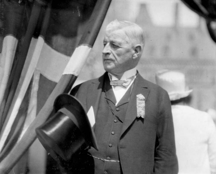 Honourable Hugh Guthrie, Leader of the Opposition